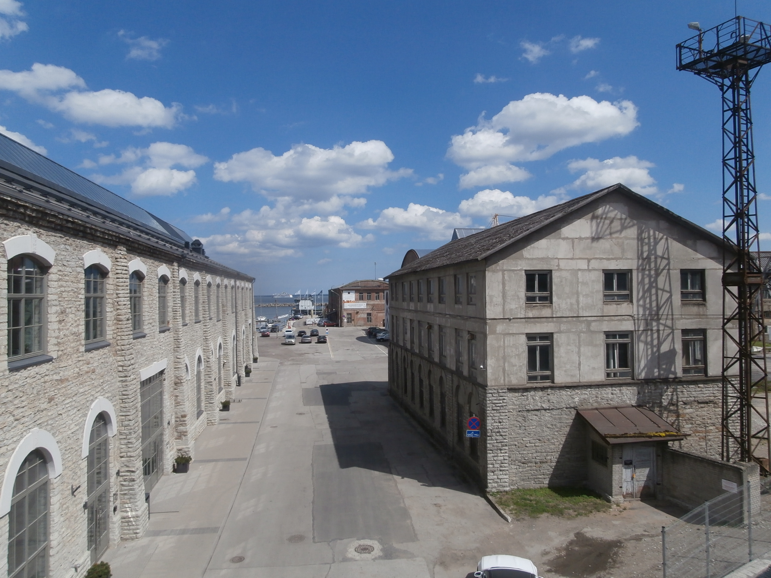 Peetri tänav, view towards the Port Noblessner, Tallinn 2 July 2016 (Baltic Queen in the background)